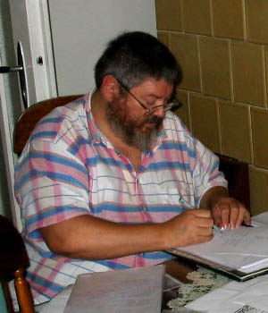 Hungarian poet and politician Geza Szocs